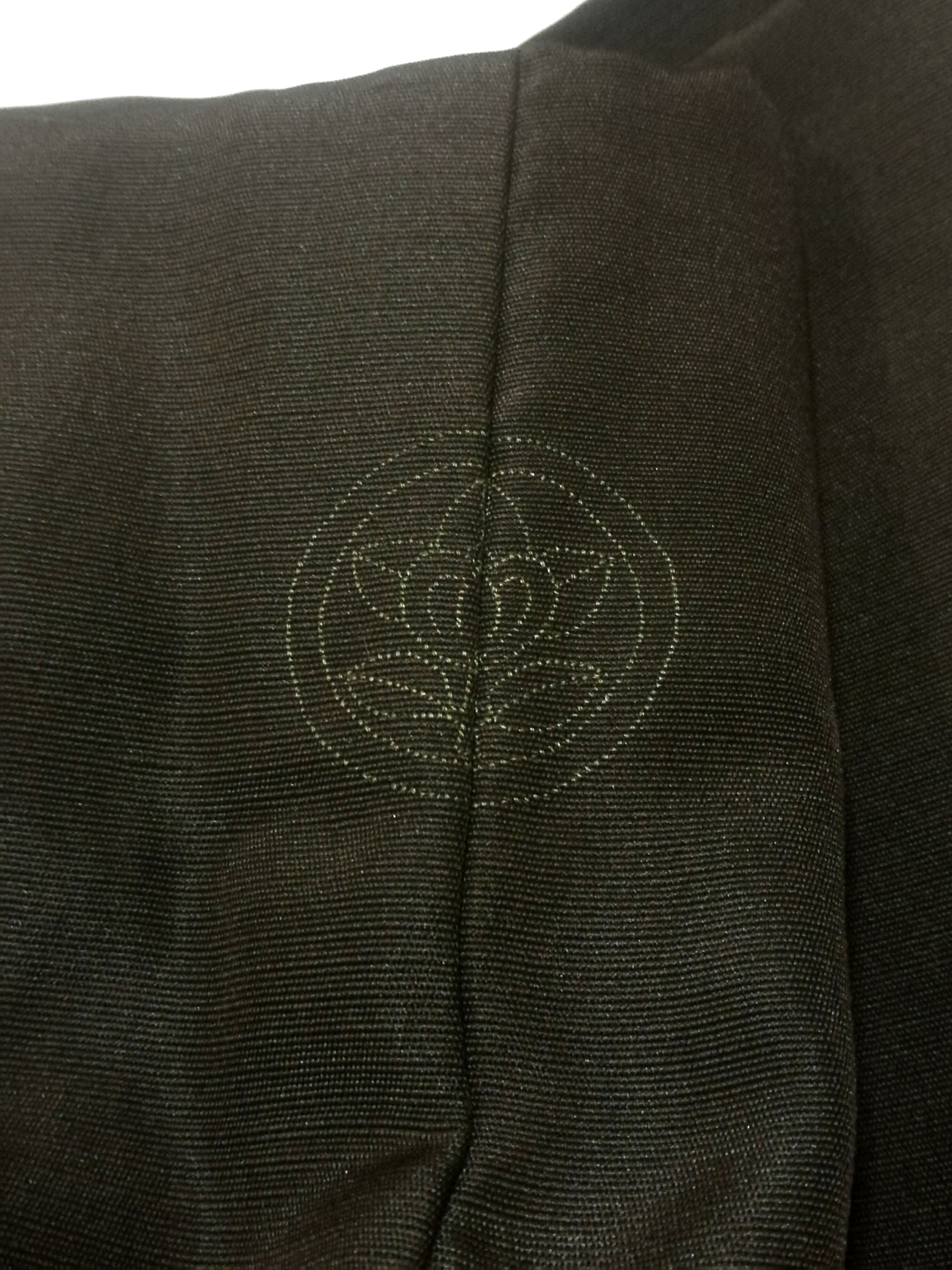 A dyed 'shadow' (kage) kamon (Japanese family crest) on a brown silk haori (kimono jacket). The outlines of the crest are dyed as dotted lines, making the crest almost invisible; this type of crest is the least formal kind, making this haori suitable for barely-formal occasions.